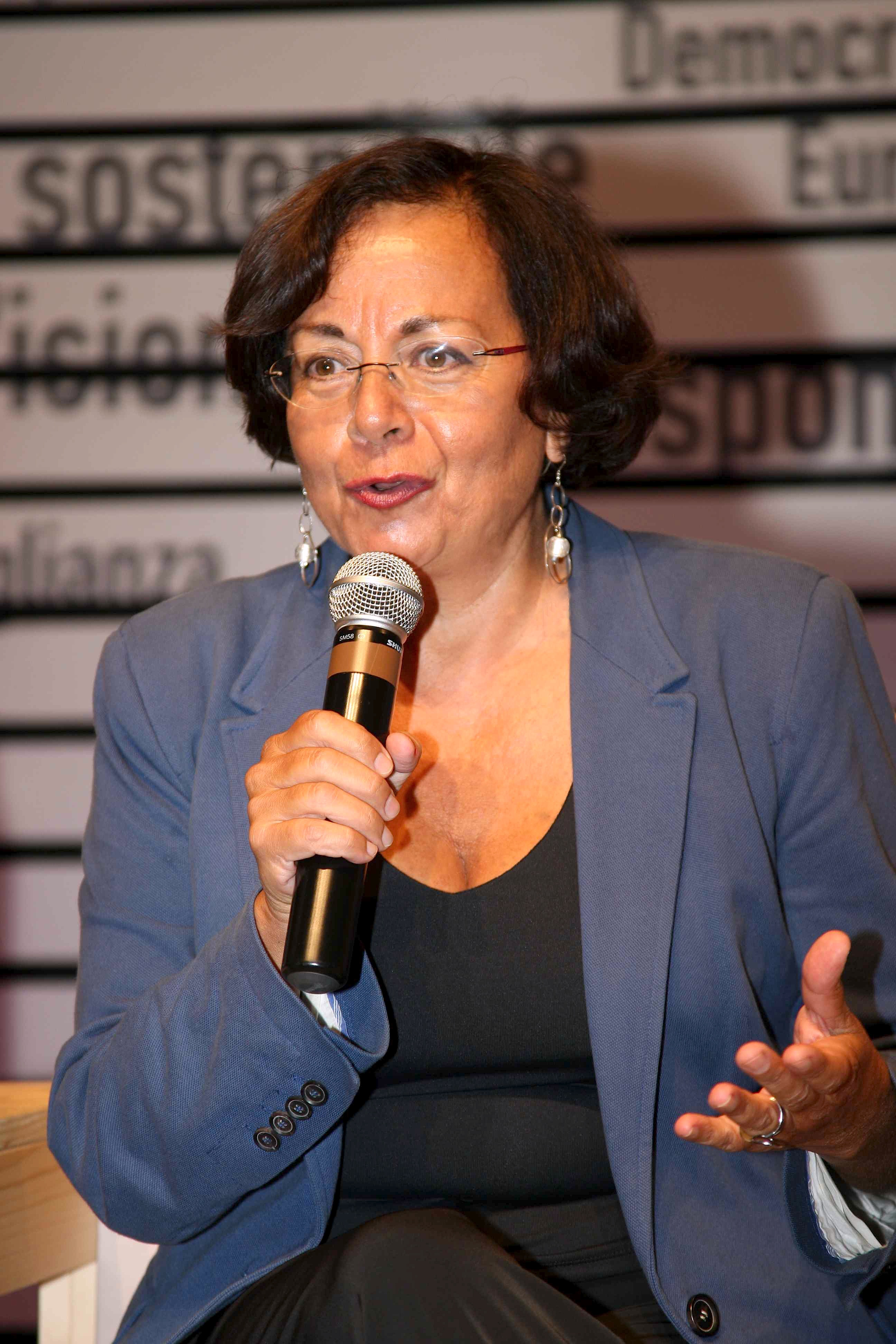 Giuseppina Paterniti